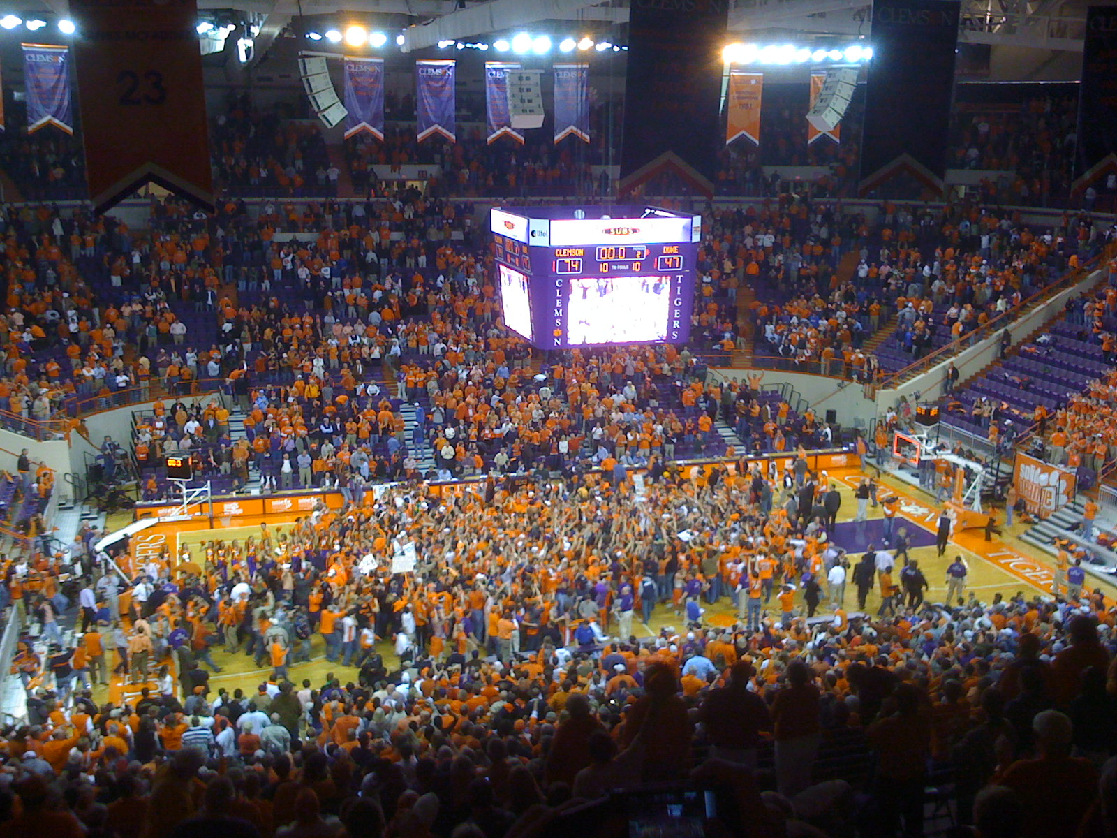 Aftermath of Clemson's 74-47 win over Duke